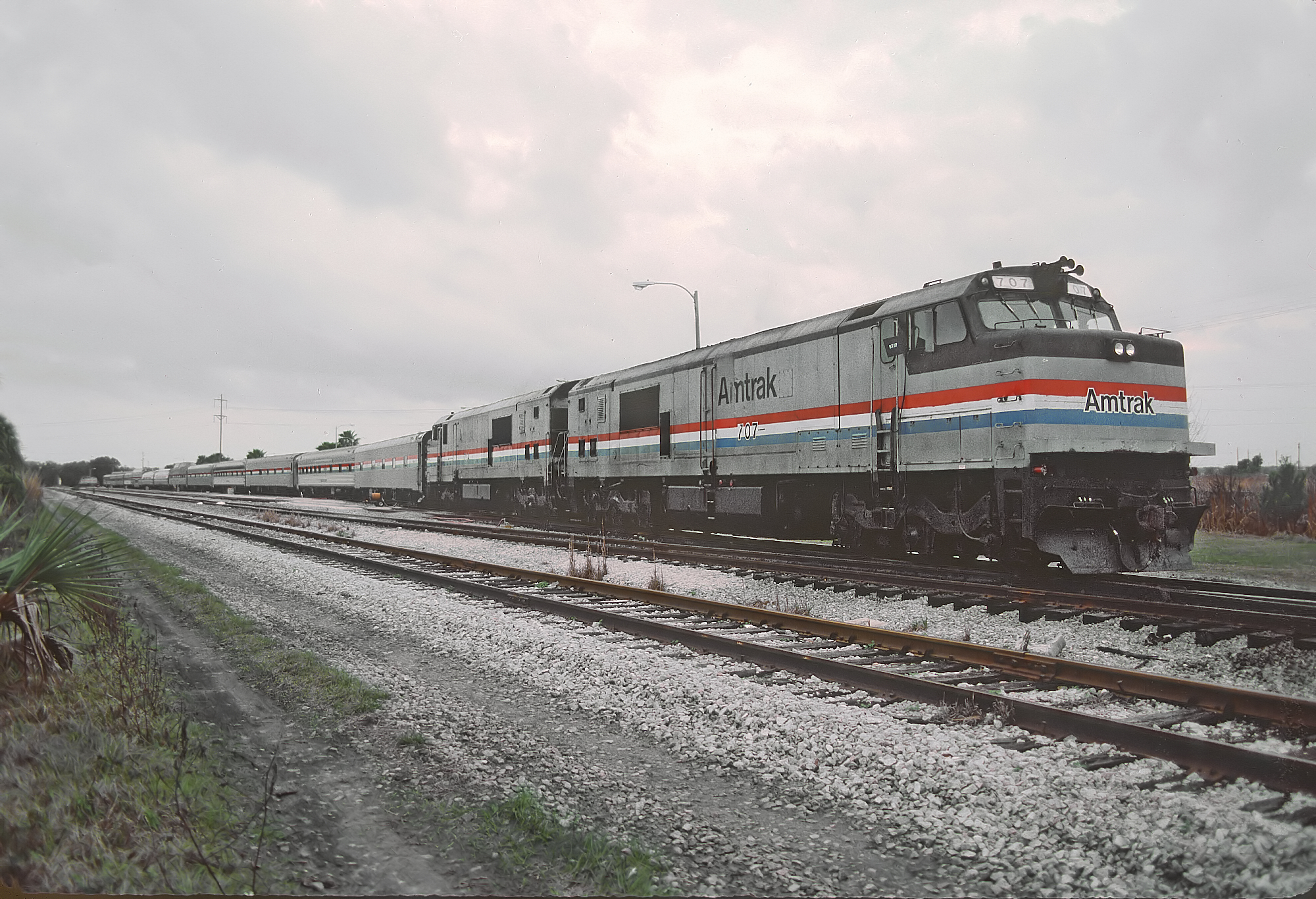 The Auto Train at Sanford, Florida.